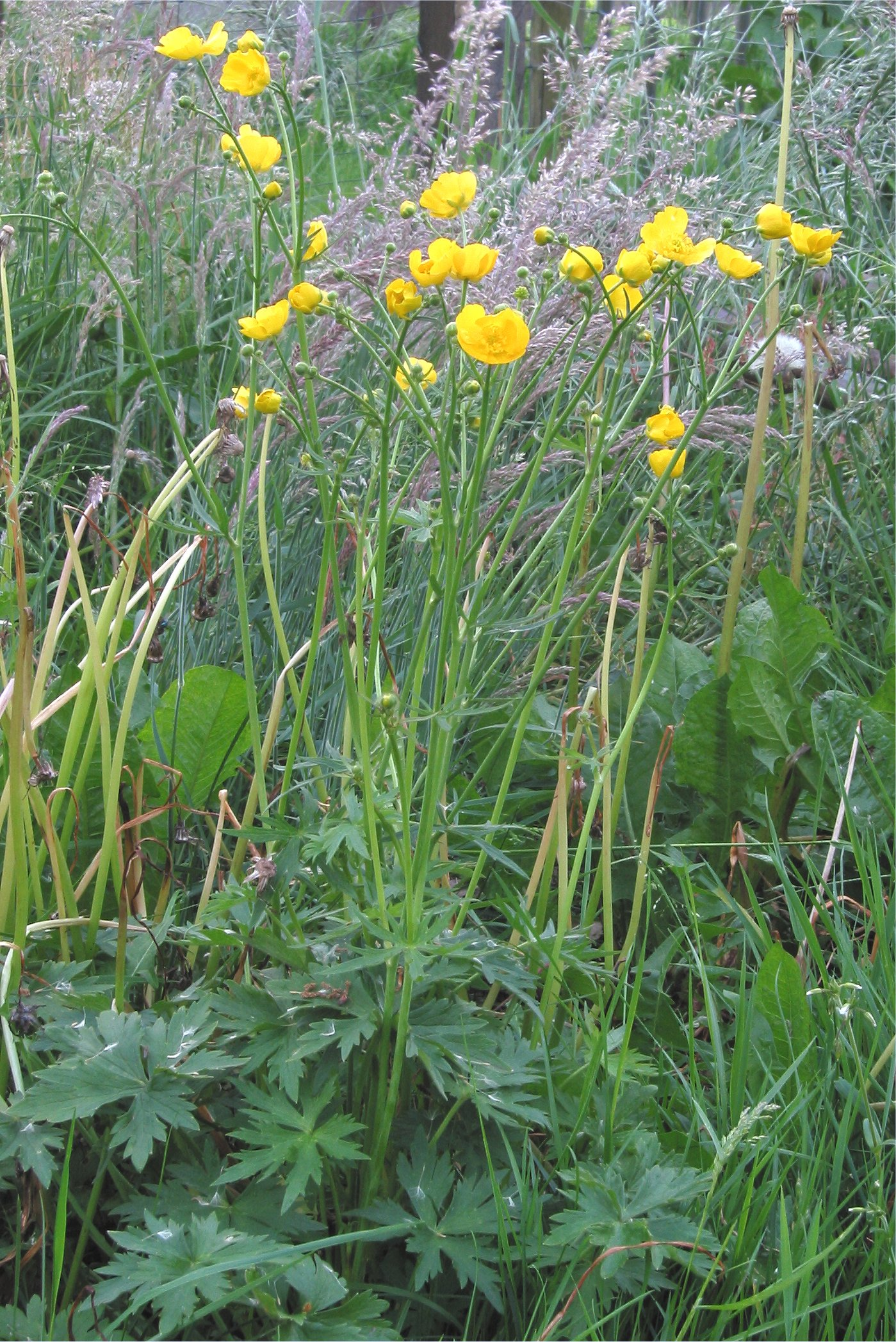 Ranunculus acris